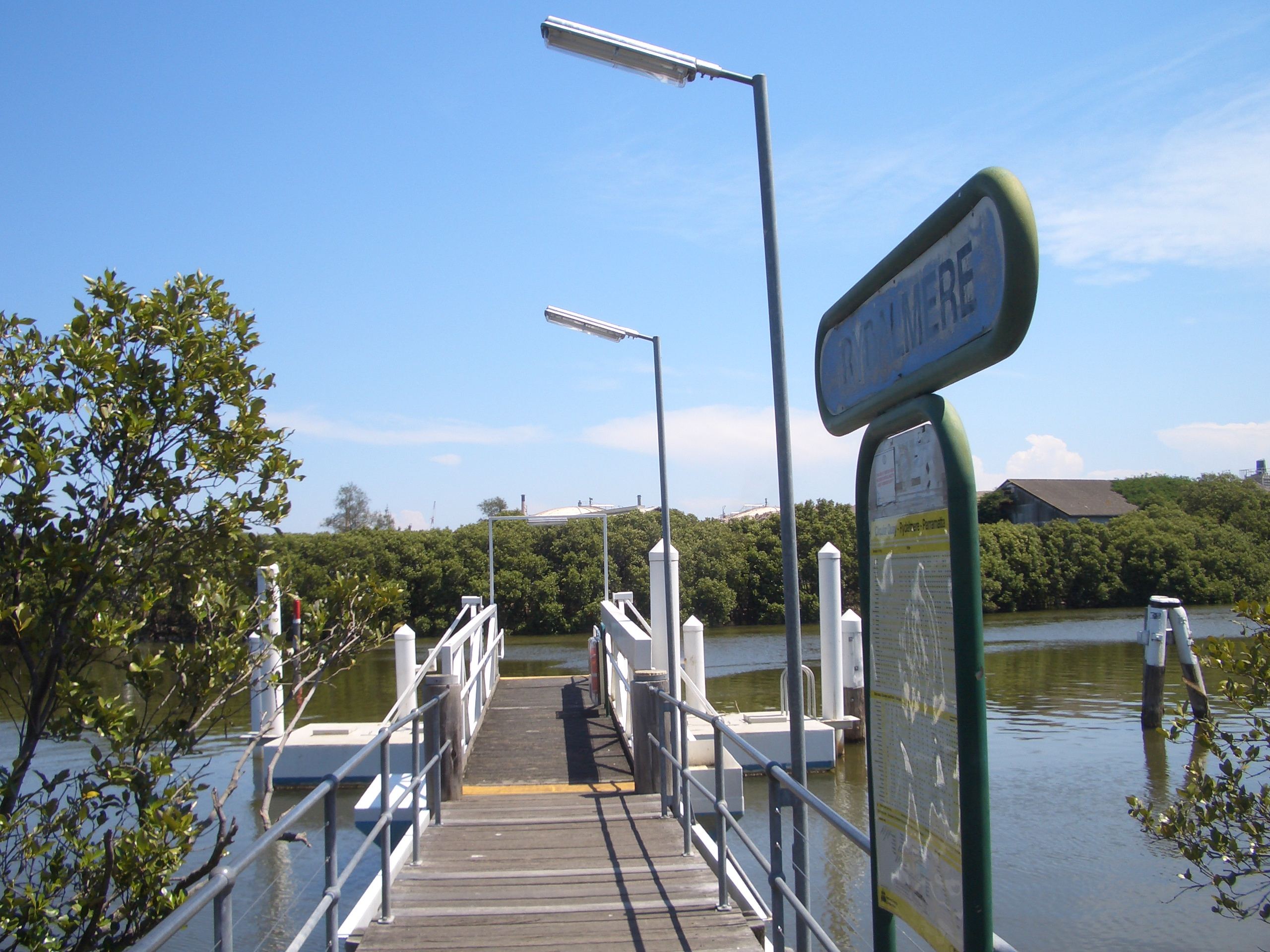 Rydalmere Ferry Wharf